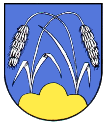 old coat of arms of Königsfeld im Schwarzwald